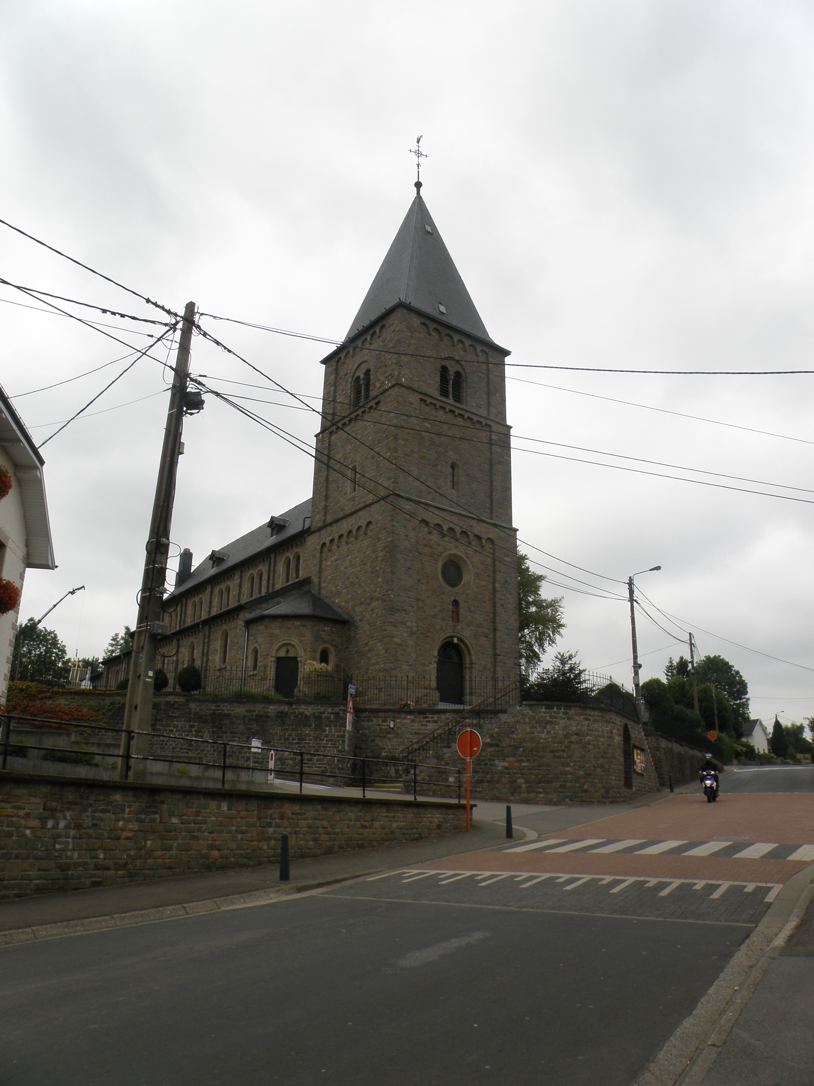 Church in Heppenbach